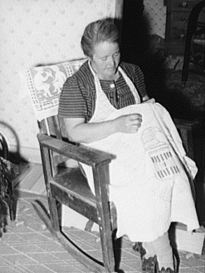 Spanish-American woman doing needlework. Many of the homes in this section show the love of the Spanish-Americans for colorful decoration. Chamisal, New Mexico